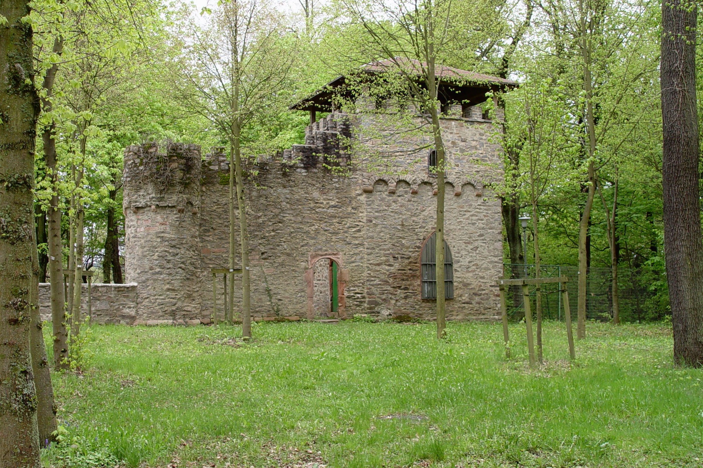 Faked castle ruin, built 1839 by Adam Kipp as park decoration at Godelsberg in Aschaffenburg